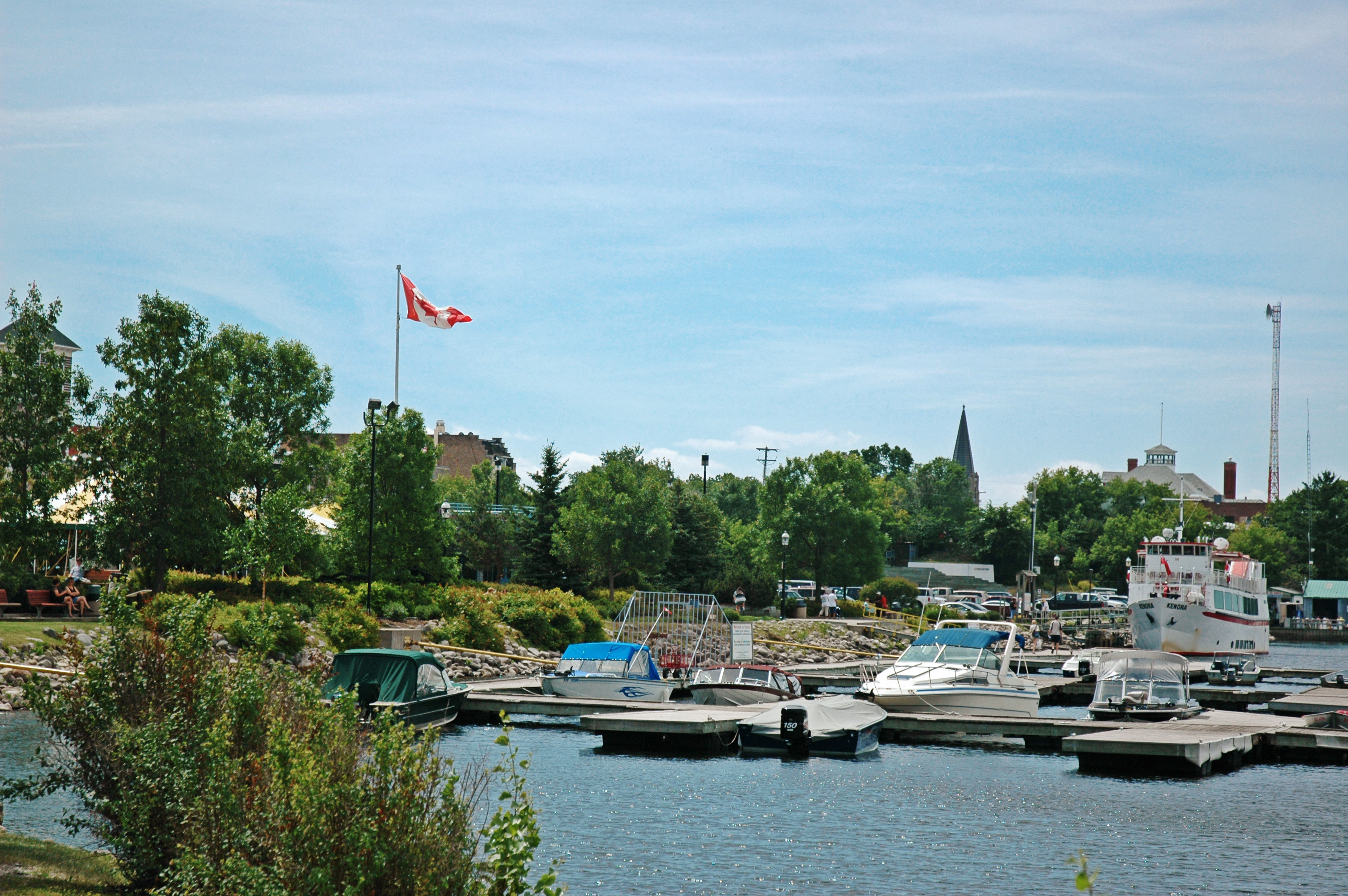 Quay of Kenora, Ontario.